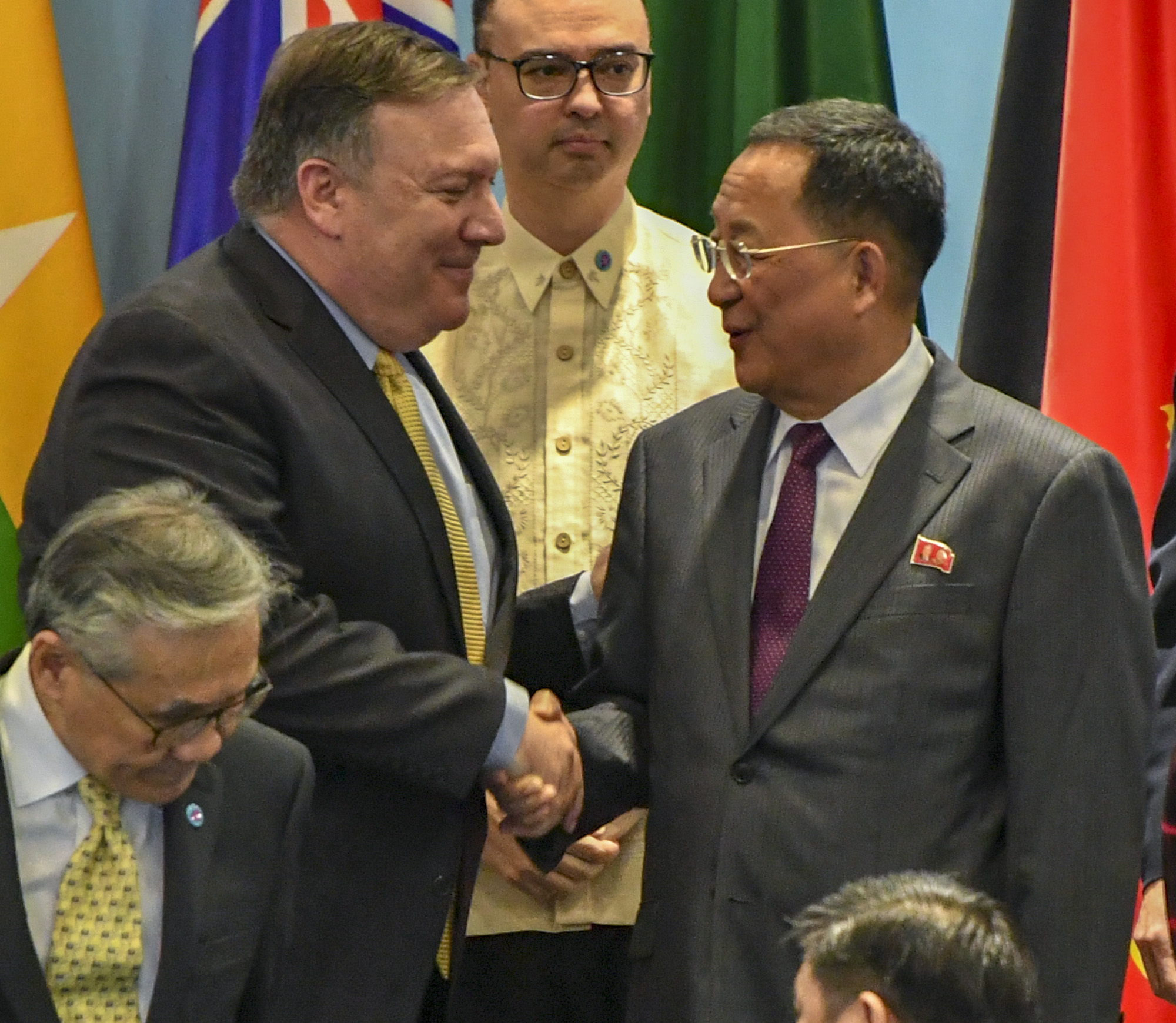 Secretary Michael R. Pompeo had the chance to speak with his DPRK counterpart FM Ri Yong Ho at ASEAN today. They had a quick, polite exchange and the US delegation also had the opportunity to deliver President Donald Trump’s reply to Chairman Kim’s letter. August 4, 2018. [State Department Photo / Public Domain]